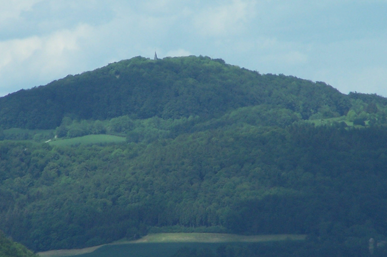 The mount Hülfensberg, seen from Großburschla.